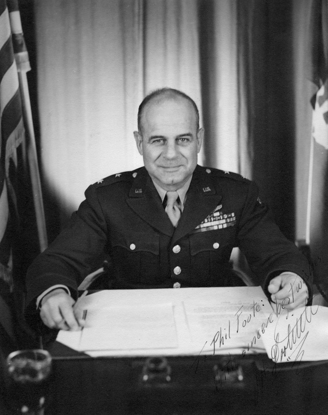 Autographed photo of General Jimmy Doolittle. Photo property of Googie Man.